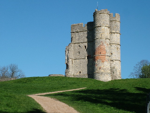 Donnington Castle - UK. Approaching the castle from the car park to the south. This is a Civil War siege castle, built around 1386.